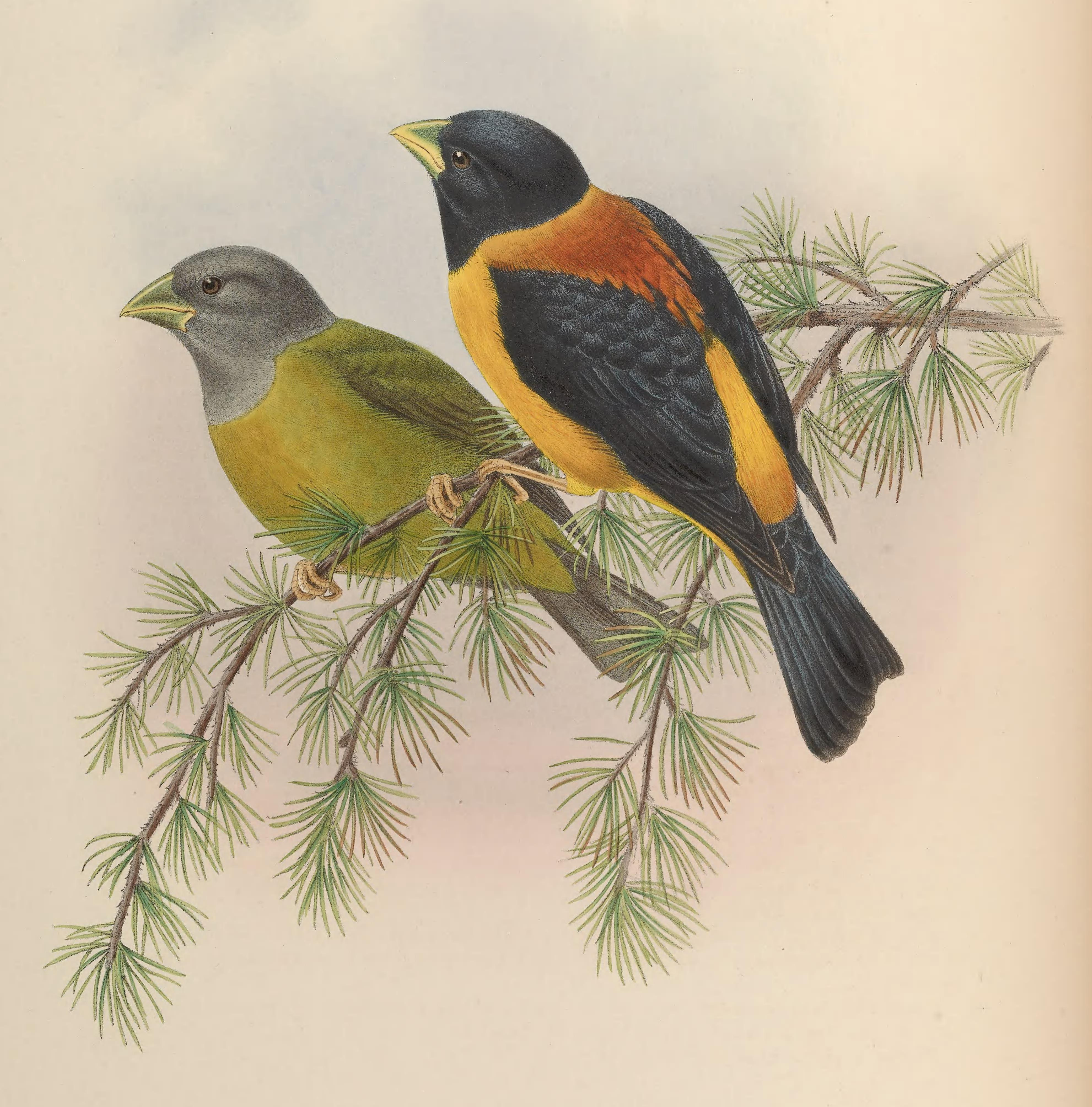 Hesperiphona affinis = Mycerobas affinis[1]